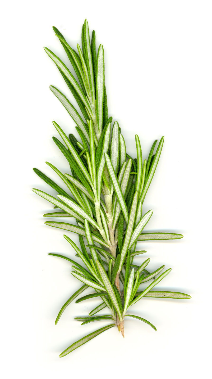 Rosemary sprig (Rosmarinus officinalis)